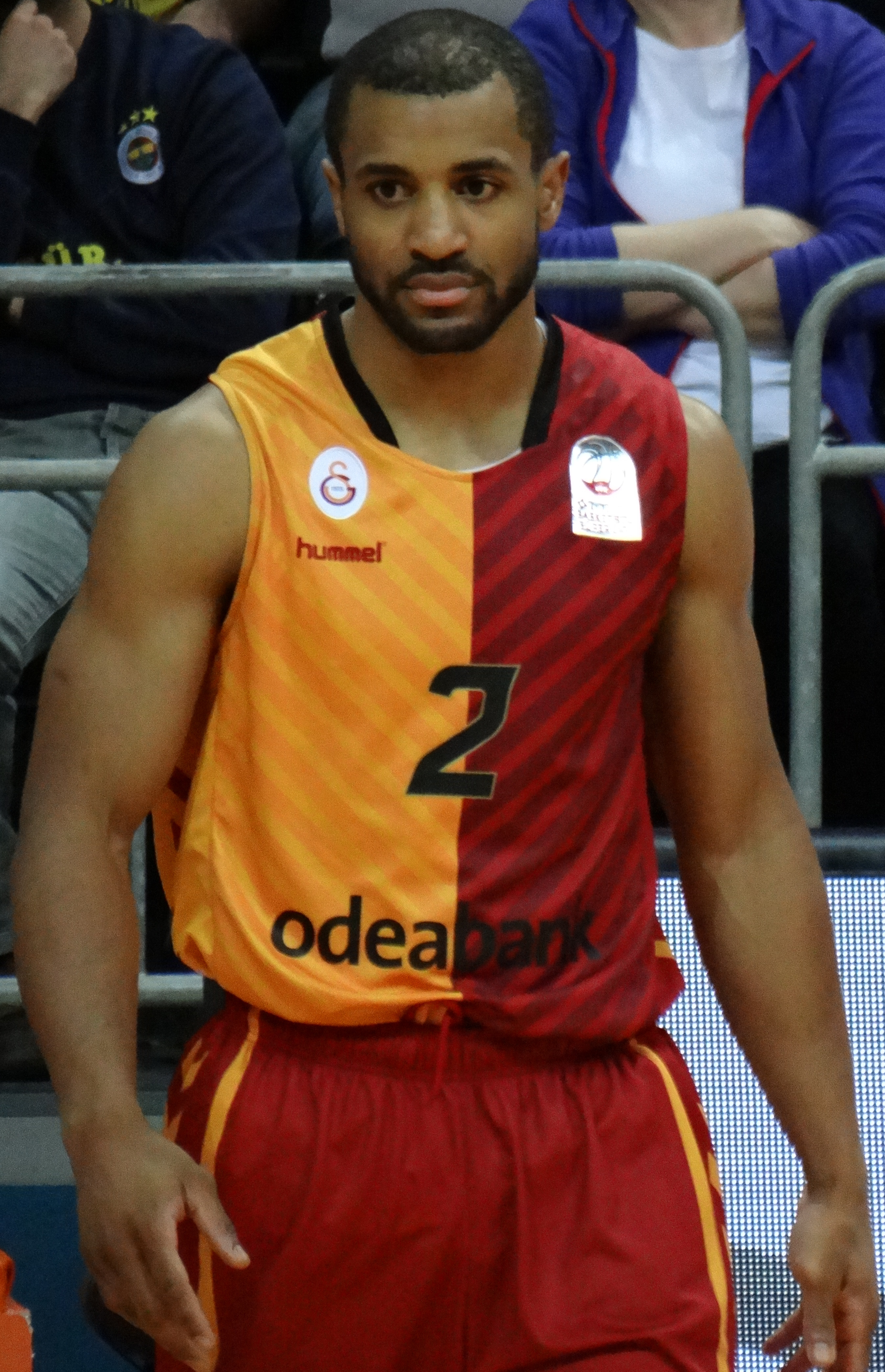 Jordan Taylor (basketball) Fenerbahçe Men's Basketball vs Galatasaray Men's Basketball TSL 20180304